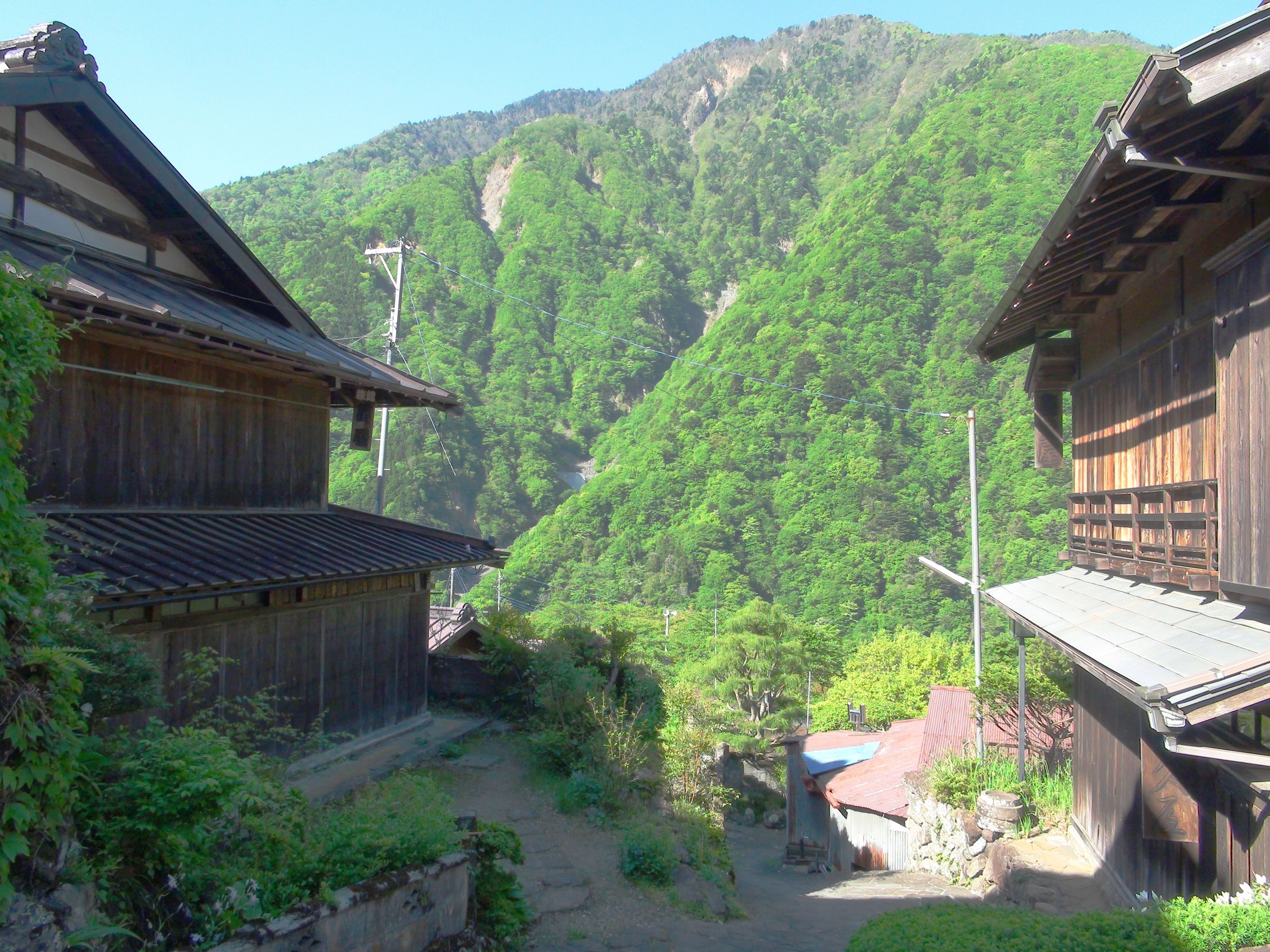 Mt.Shichimen-san to look up at from Akasawa